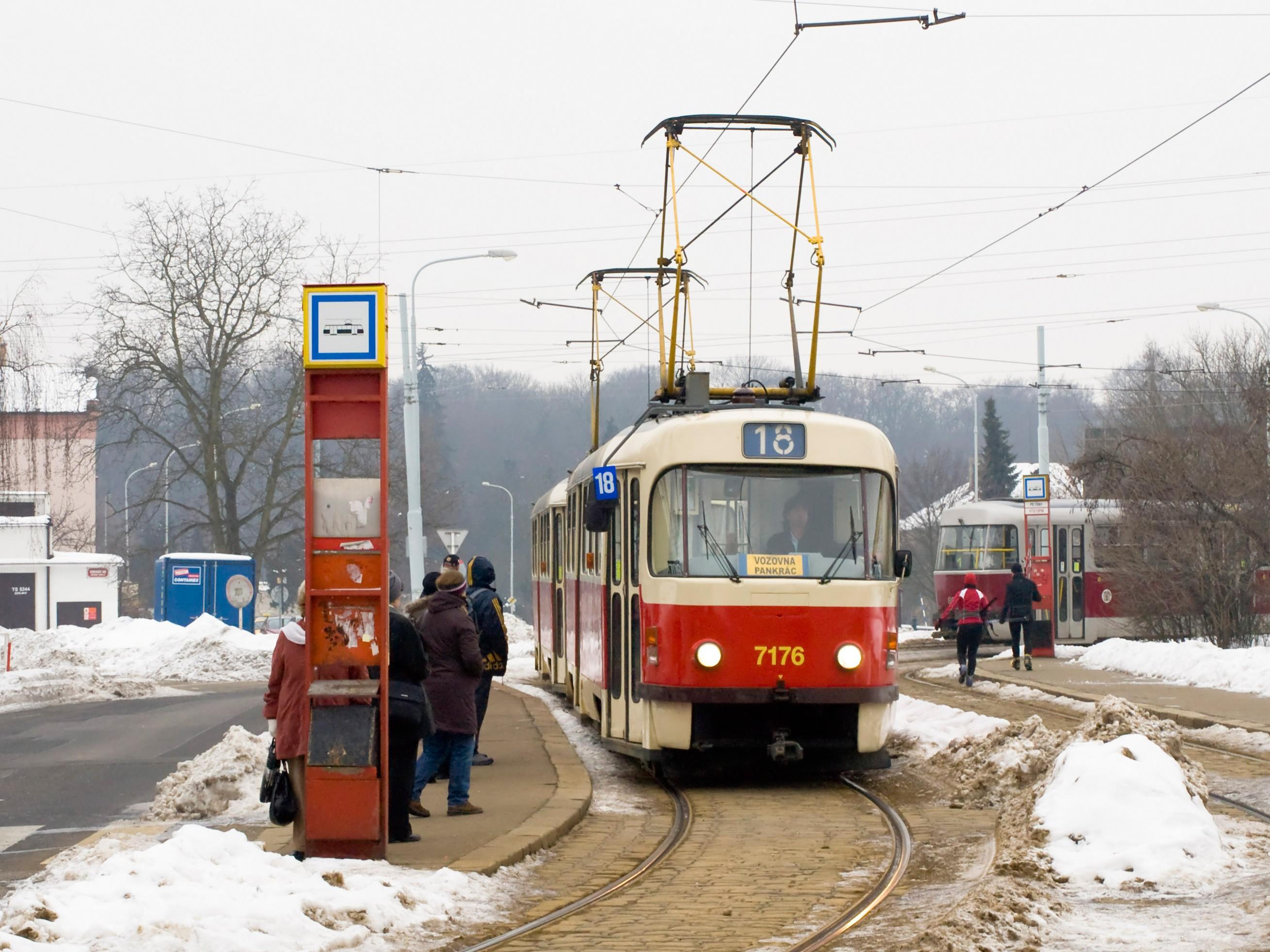 Tram loop Petřiny with Tatra T3SUCS, Prague